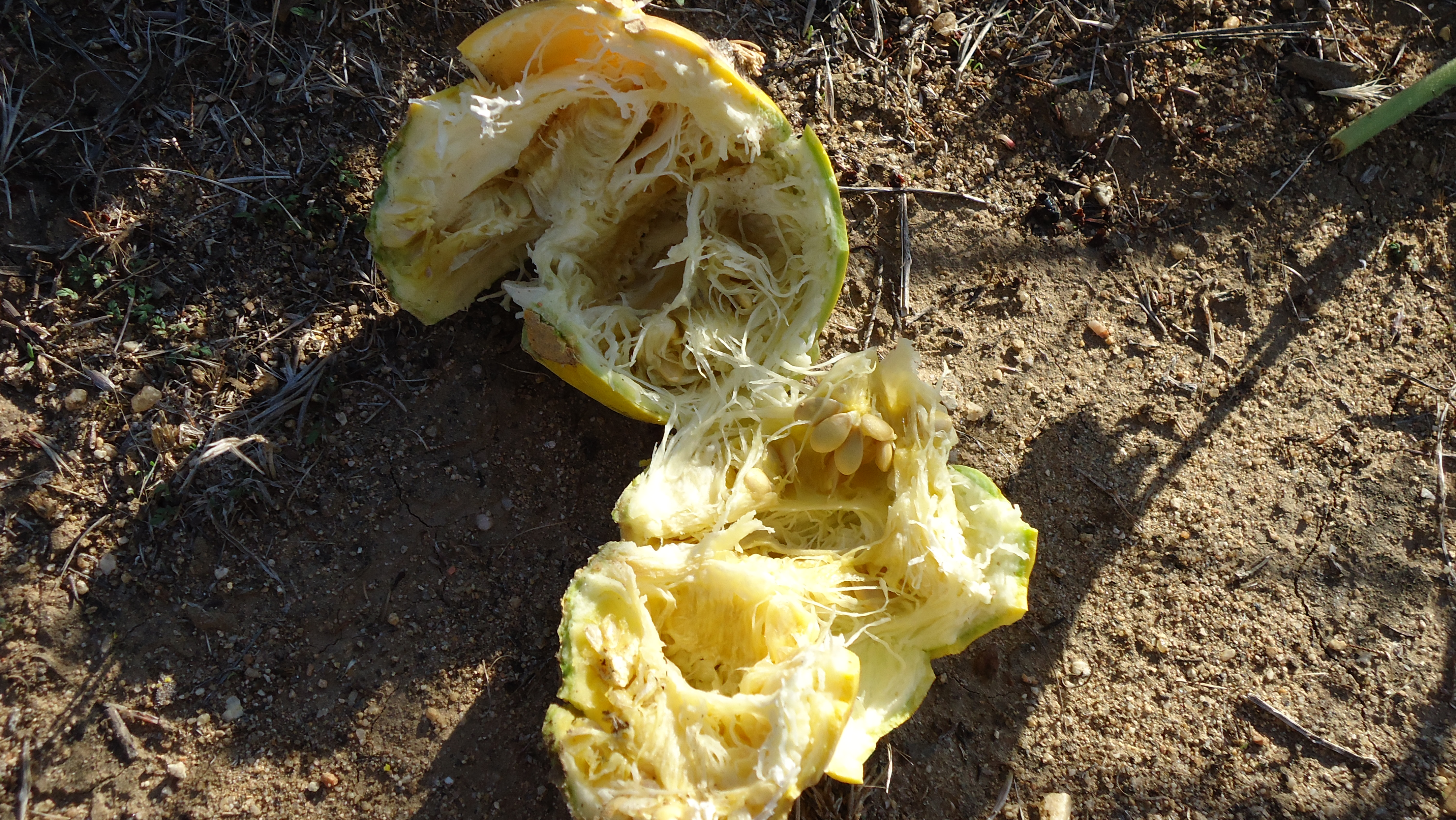 Cucurbita foetidissima, a view showing the melon's interior section and seeds.